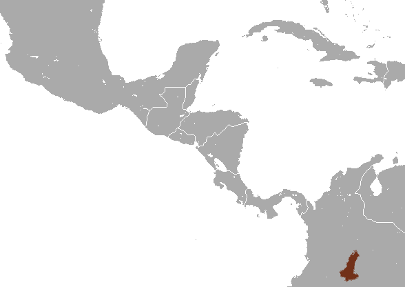 Ornate Titi (Callicebus ornatus) range